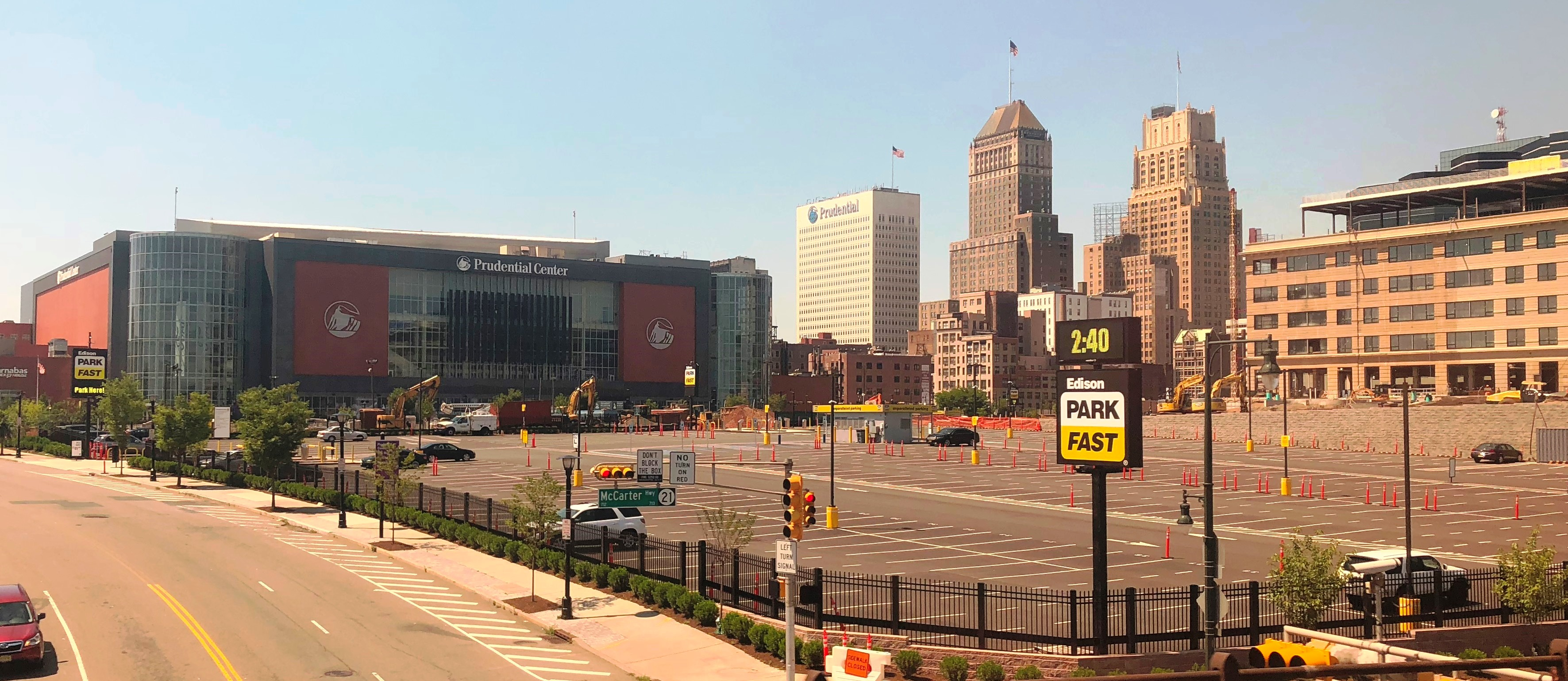 Prudential Center in downtown Newark, New Jersey